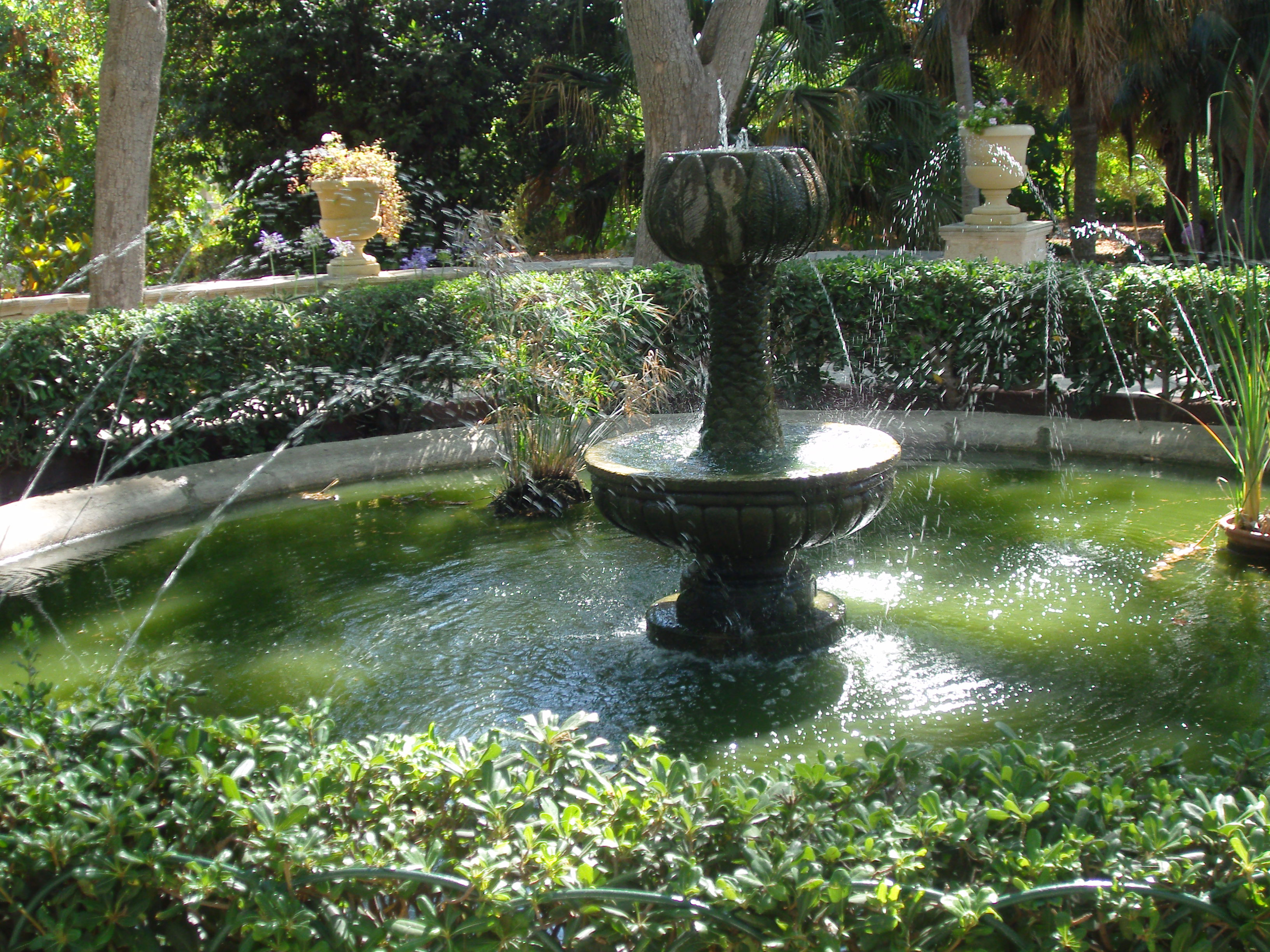 The Gardens of the San Anton Palace